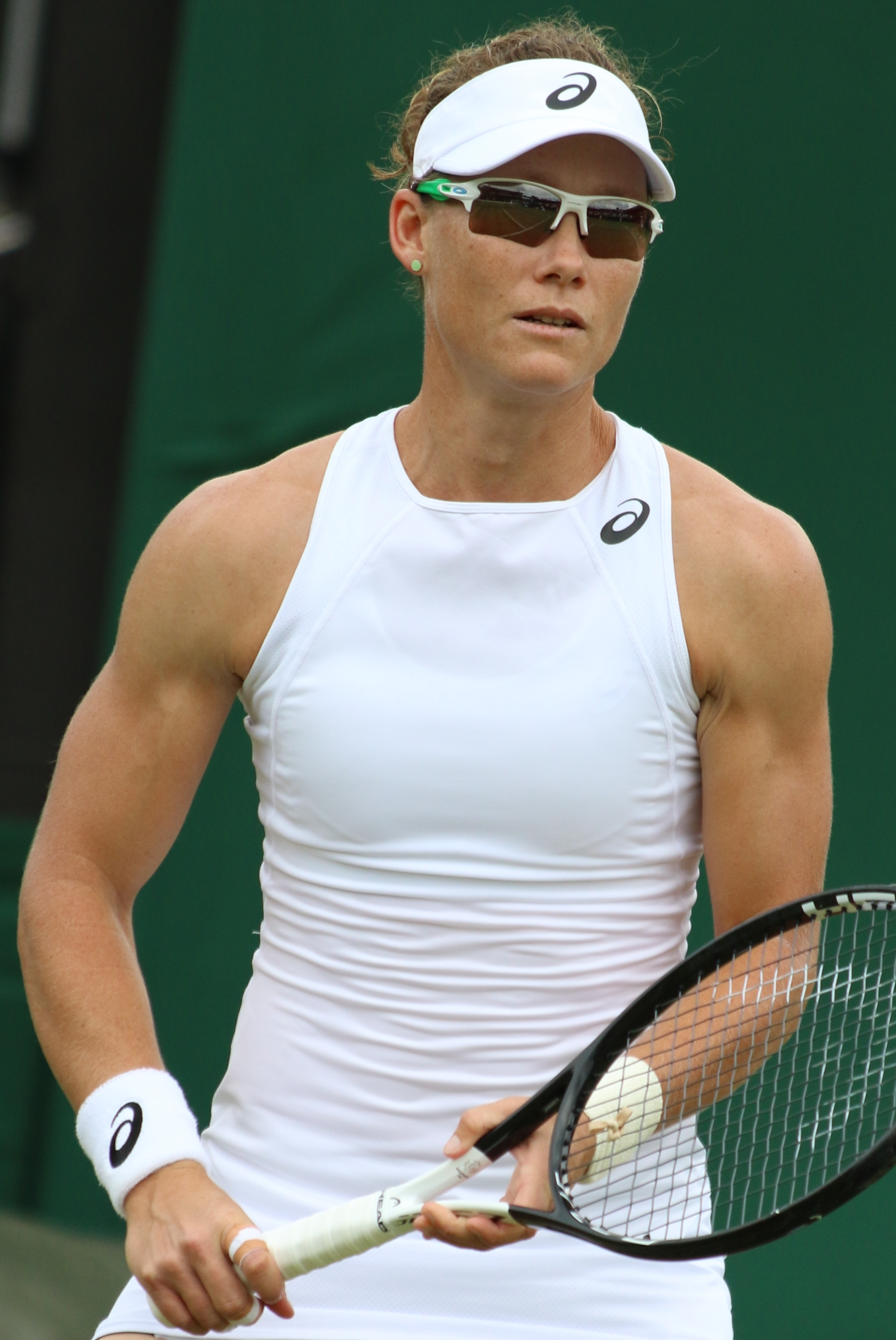 Stosur WM19 (1)